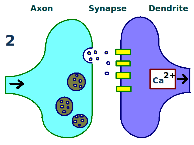 Long term potentiation: second stage. More receptors are found on the dendrite.